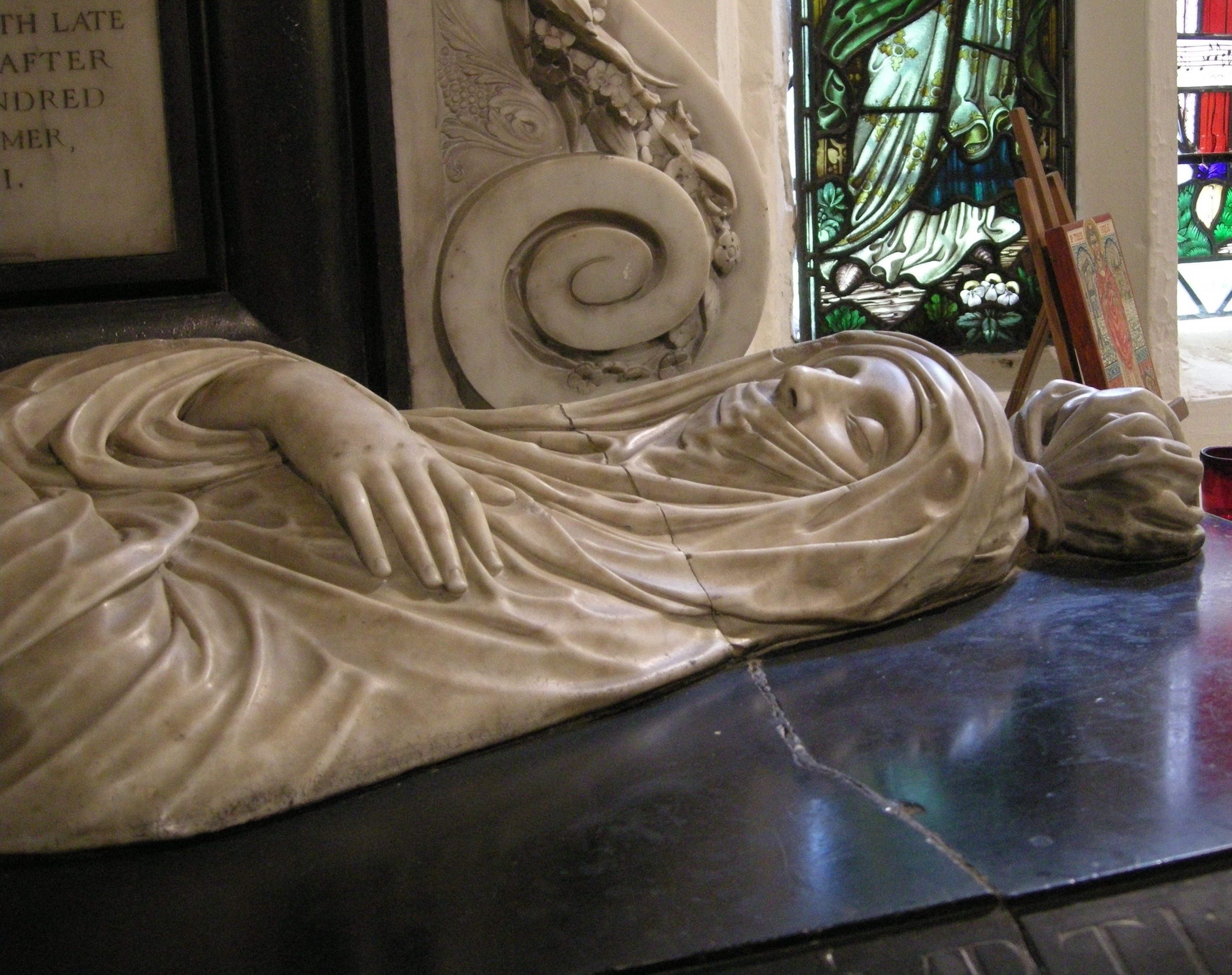 Tomb effigy of Elizabeth, Lady Berkeley (d. 23 April 1635) in St Dunstan's church, Cranford, Middlesex, sculpted by Nicholas Stone.